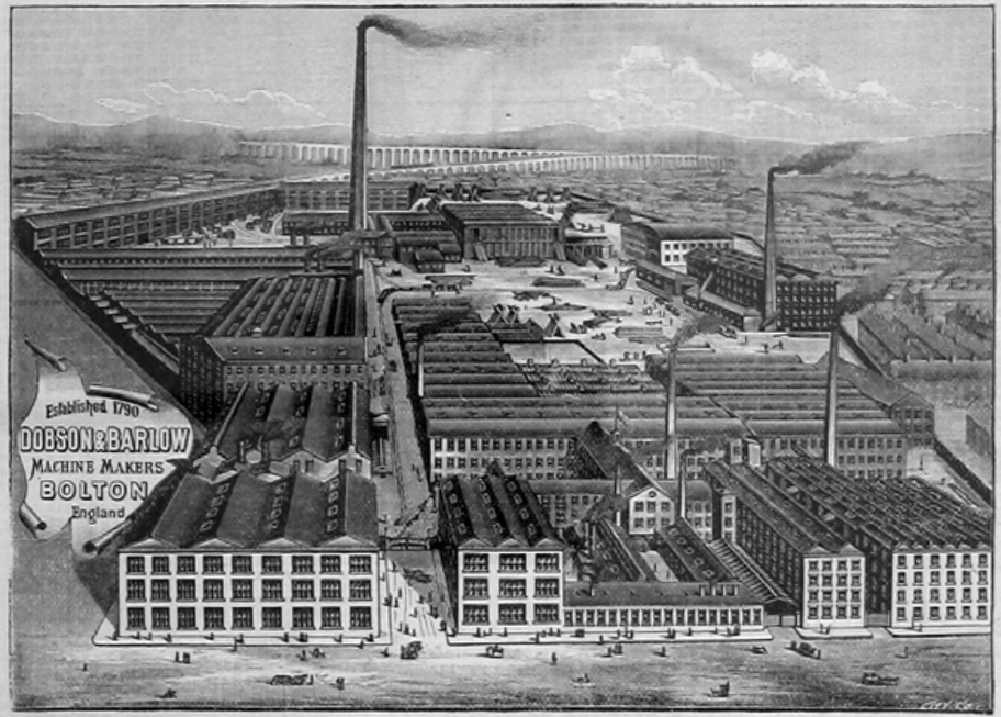 Capture from Textile Mercury, a paper published by Marsden in Manchester in 1892. [1] This UK artistic work, of which the author is unknown and cannot be ascertained by reasonable enquiry, is in the public domain because it is one of the following: A photograph, which has never previously been made available to the public (e.g. by publication or display at an exhibition) and which was taken more than 70 years ago (before 1st January 1944); or A photograph, which was made available to the public (e.g. by publication or display at an exhibition) more than 70 years ago (before 1 January 1944); or An artistic work other than a photograph (e.g. a painting), which was made available to the public (e.g. by publication or display at an exhibition) more than 70 years ago (before 1 January 1944). This tag can be used only when the author cannot be ascertained by reasonable enquiry. If you wish to rely on it, please specify in the image description the research you have carried out to find who the author was. The above is all subject to any overriding Publication right which may exist. In practice, Publication right will often override the first of the bullet points listed. Unpublished anonymous paintings remain in copyright until at least 1 January 2040. This tag does not apply to engravings or musical works. More information. You must also include a United States public domain tag to indicate why this work is in the public domain in the United States. This work is in the public domain in the United States because it was published (or registered with the U.S. Copyright Office) before January 1, 1923. Public domain works must be out of copyright in both the United States and in the source country of the work in order to be hosted on the Commons. If the work is not a U.S. work, the file must have an additional copyright tag indicating the copyright status in the source country.